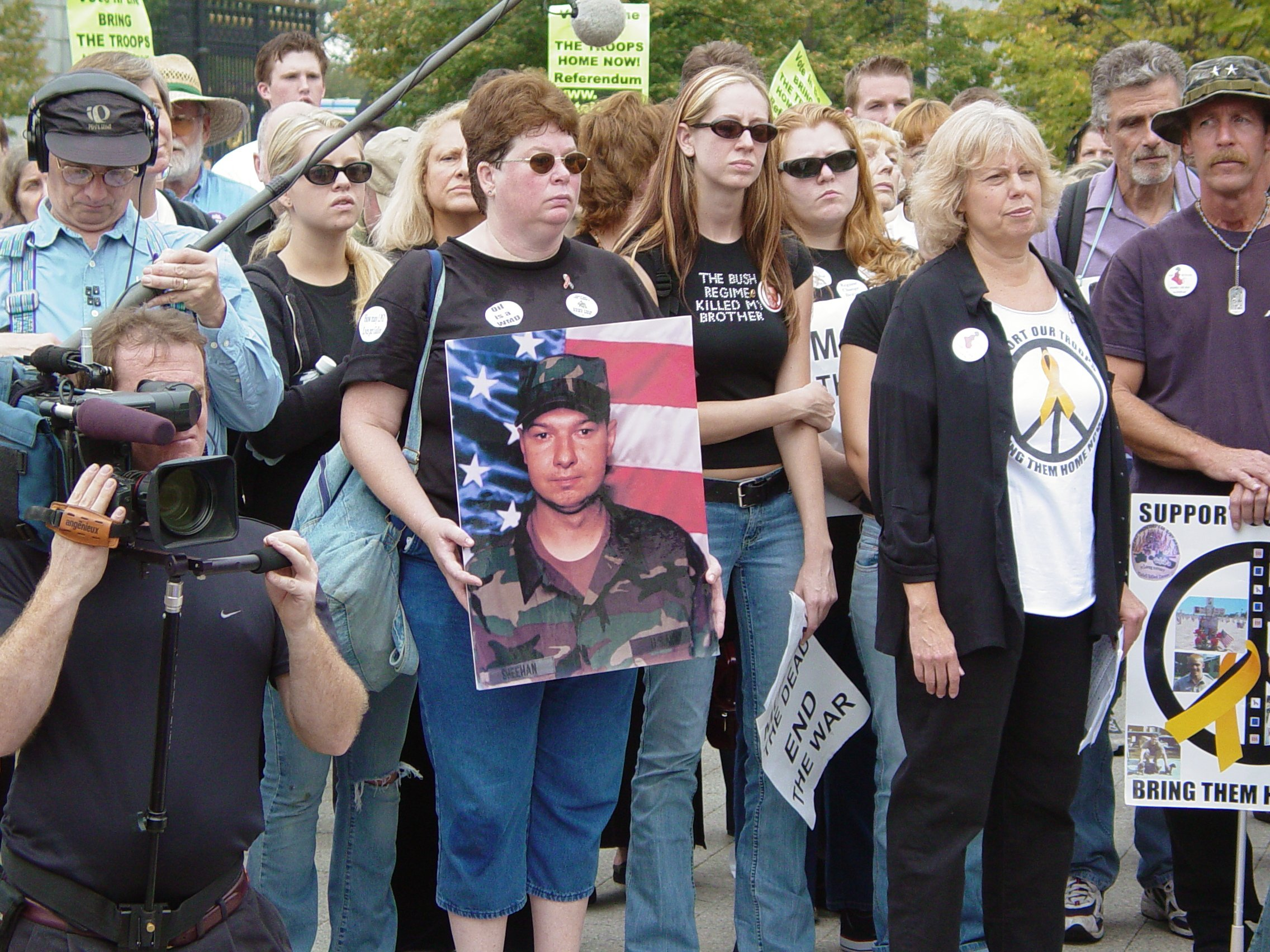 A photo of Casey Sheehan is held by his friends and family of at an anti-war demonstration in Arlington, Virginia on October 2, 2004. Cindy Sheehan herself is partly visible behind a cameraperson at left.